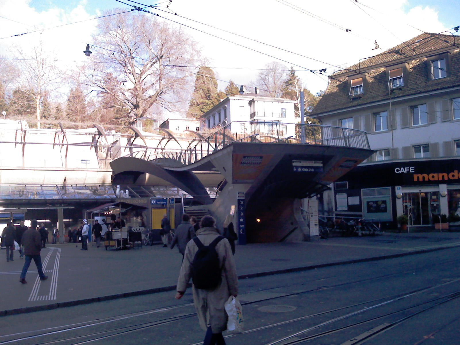 Railway station Zurich Stadelhofen - Stacidomo Zuriko-Stadelhofen